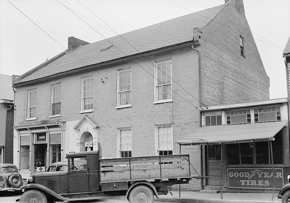 A photograph of the Wirgman Building (previously known as the Valley Bank Building and the Bank of Romney Building) in Romney, Hampshire County, West Virginia, United States. The Wirgman Building was built in 1825 and razed in 1965 for the construction of the current Bank of Romney building.